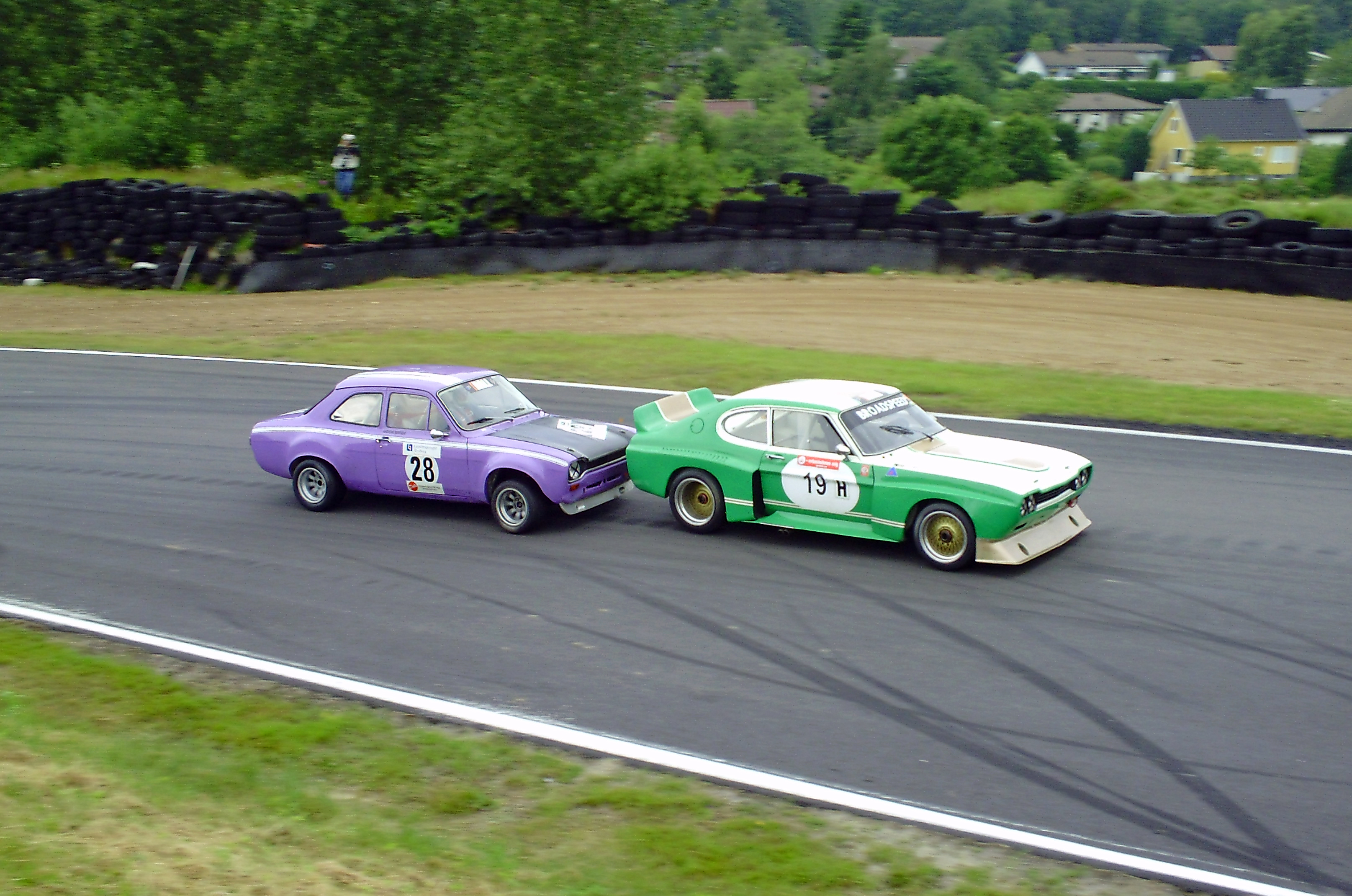 To celebrate Svenska Bilsportförbundet's 75 anniversary, a historic race was held at Falkenbergs Motorbana. Here is the battle for the second position between Mads Gjerdrum (no. 19) in a Ford Capri and Anders Berger (no. 28) in a Ford Escort.